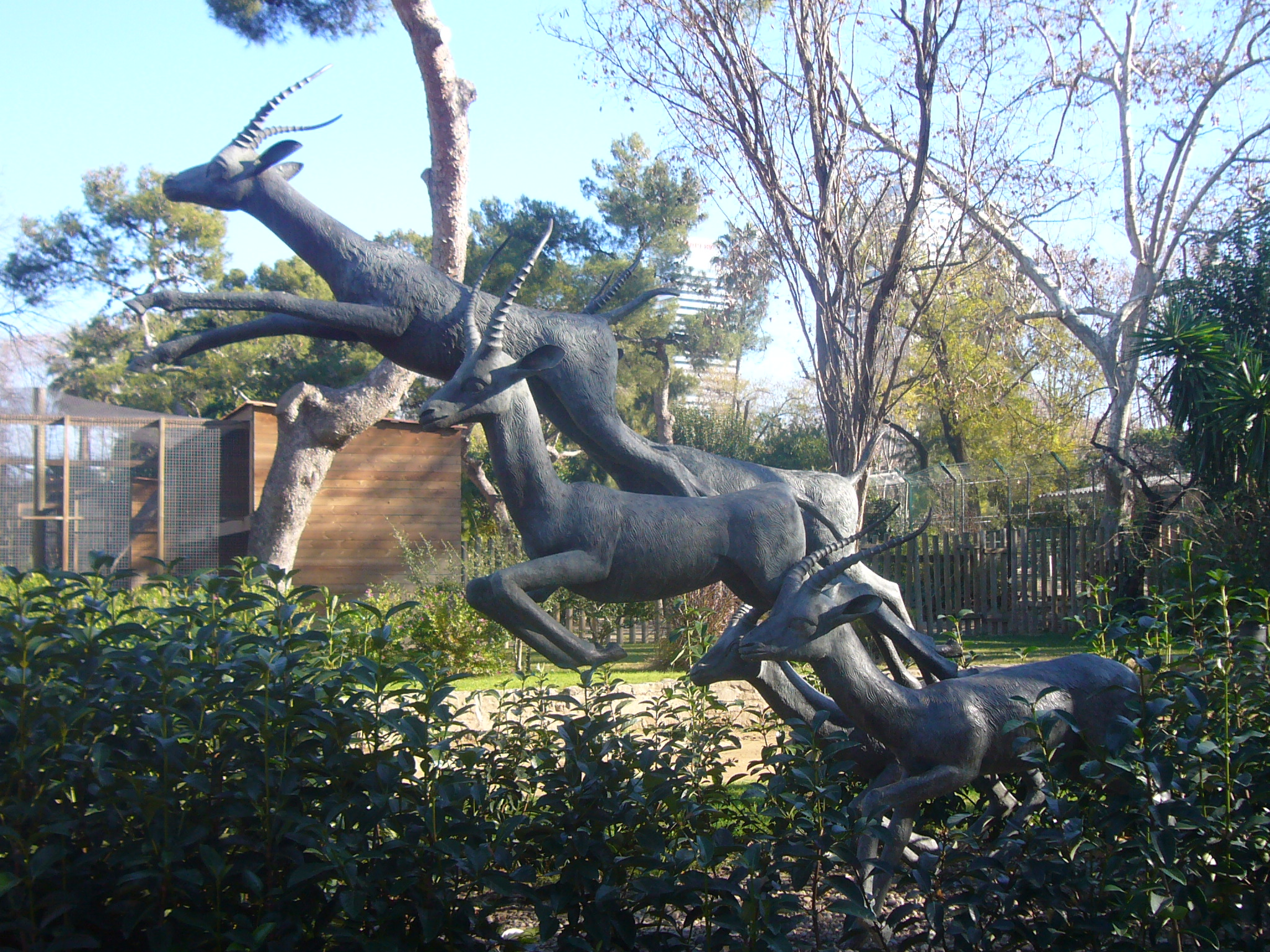 Monument in honour of Walt Disney inaugurated 9-november-1969. Work by Nuria Tortras, located at the Barcelona Zoo. It shows 5 gazelles